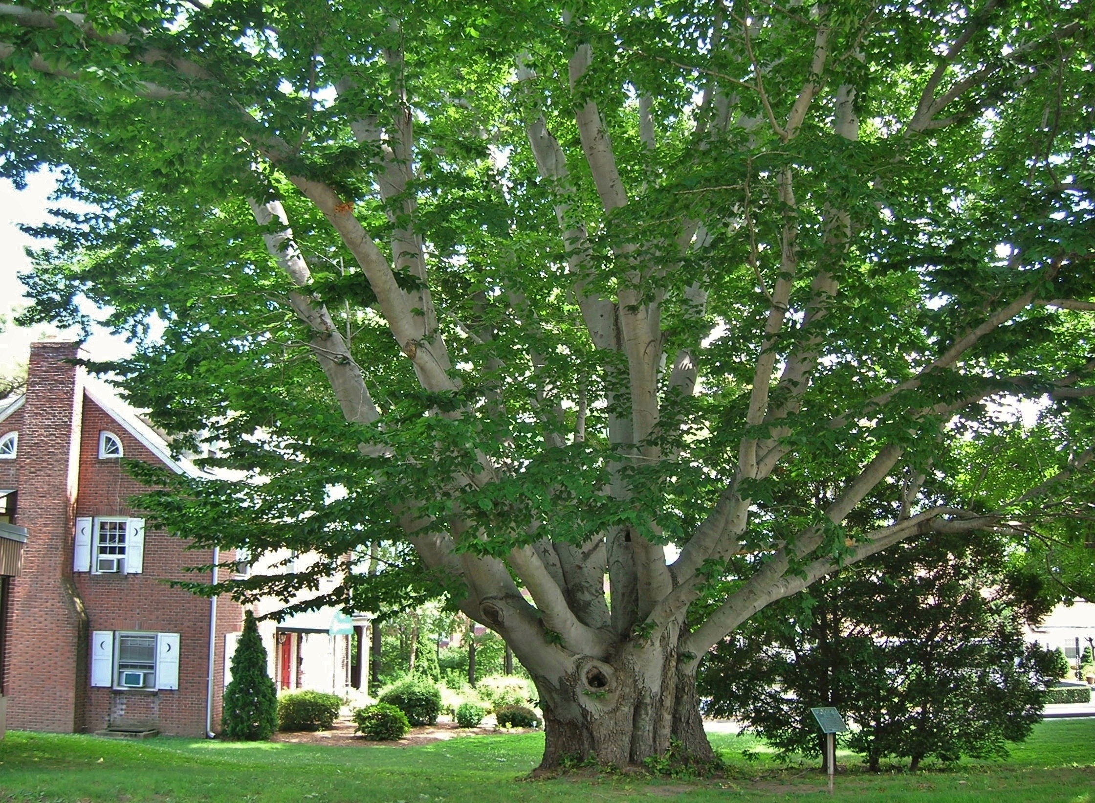 Photograph of American Beech Tree located in West Hartford, Connecticut. Photo taken 7/6/2013.